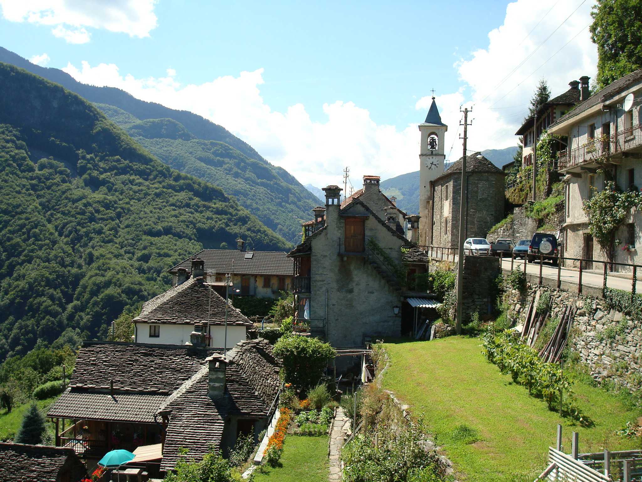 Center of the village of Mosogno, Ticino, Switzerland